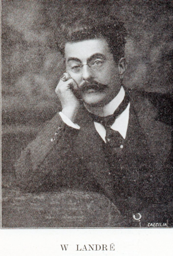 Dutch composer Willem Landré, 1912